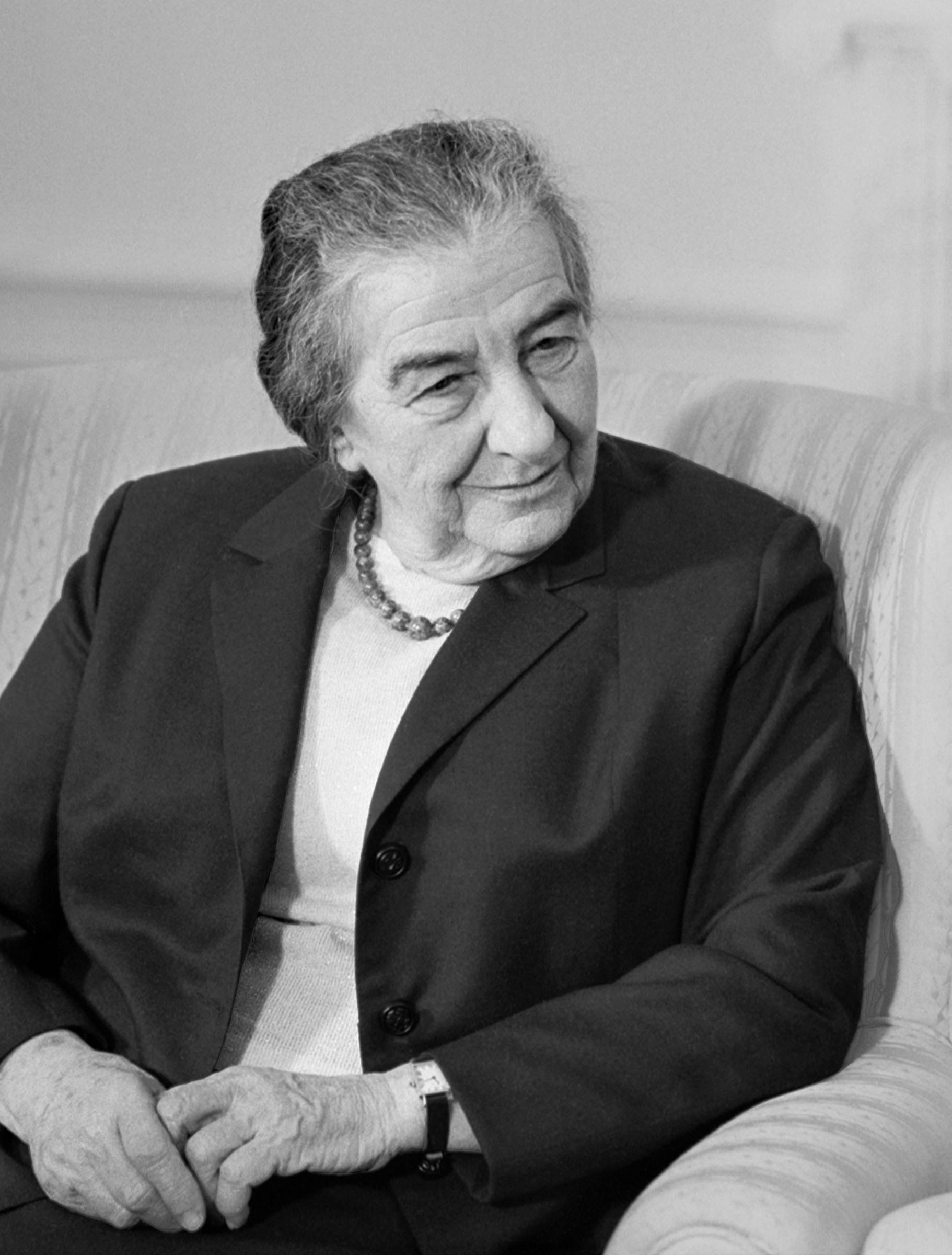 Golda Meir, Israeli PM.